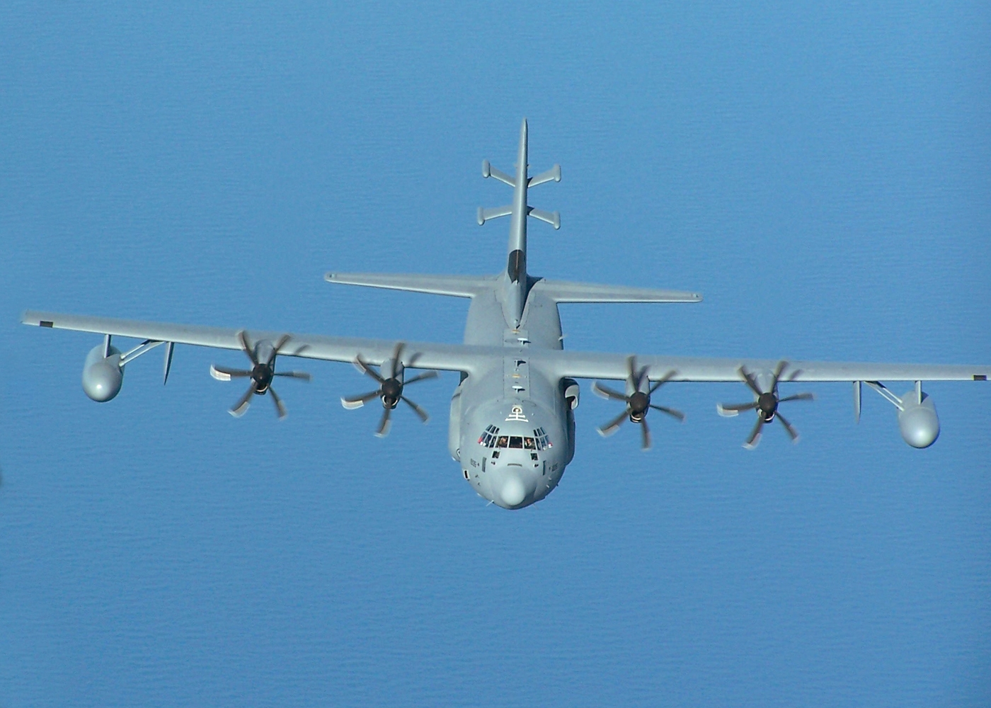 USAF EC-130J Commando Solo built by Lockheed Martin